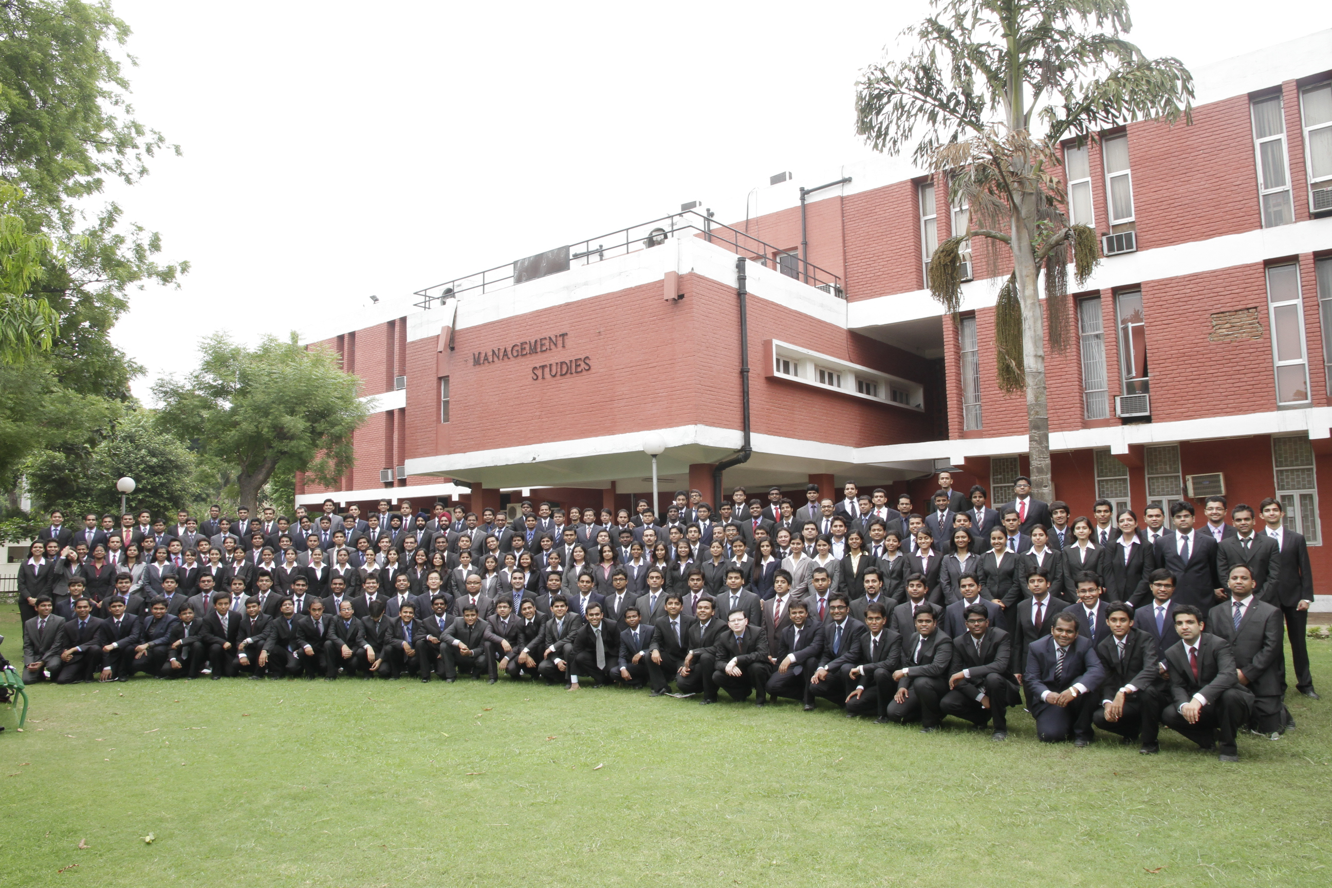 Photo shoot with the new batch of MBA students at FMS for the year 2014